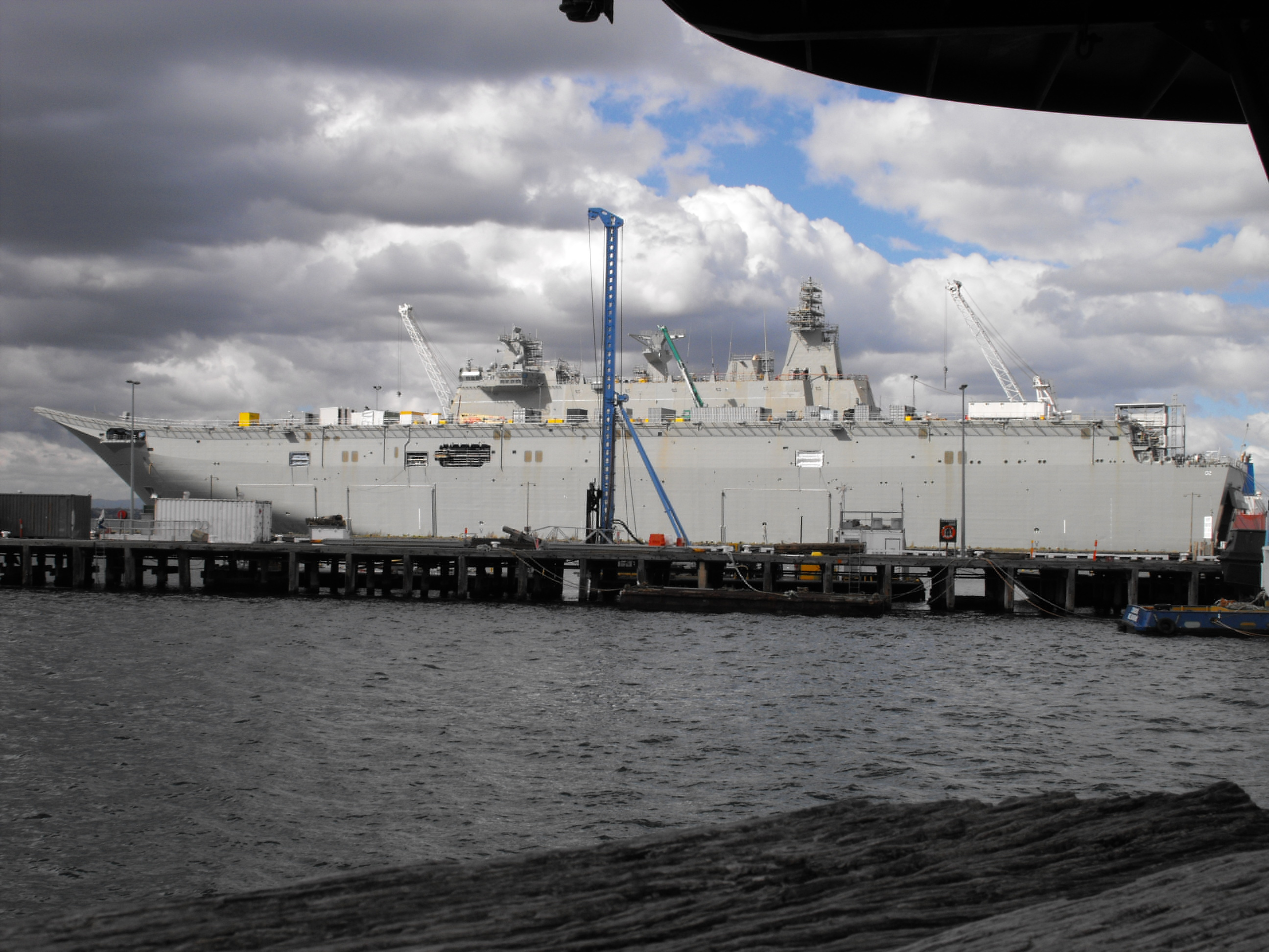 The Canberra class Landing Helicopter Dock ship HMAS Canberra. The ship is undergoing final fitout at BAE's Williamstown Dockyard.